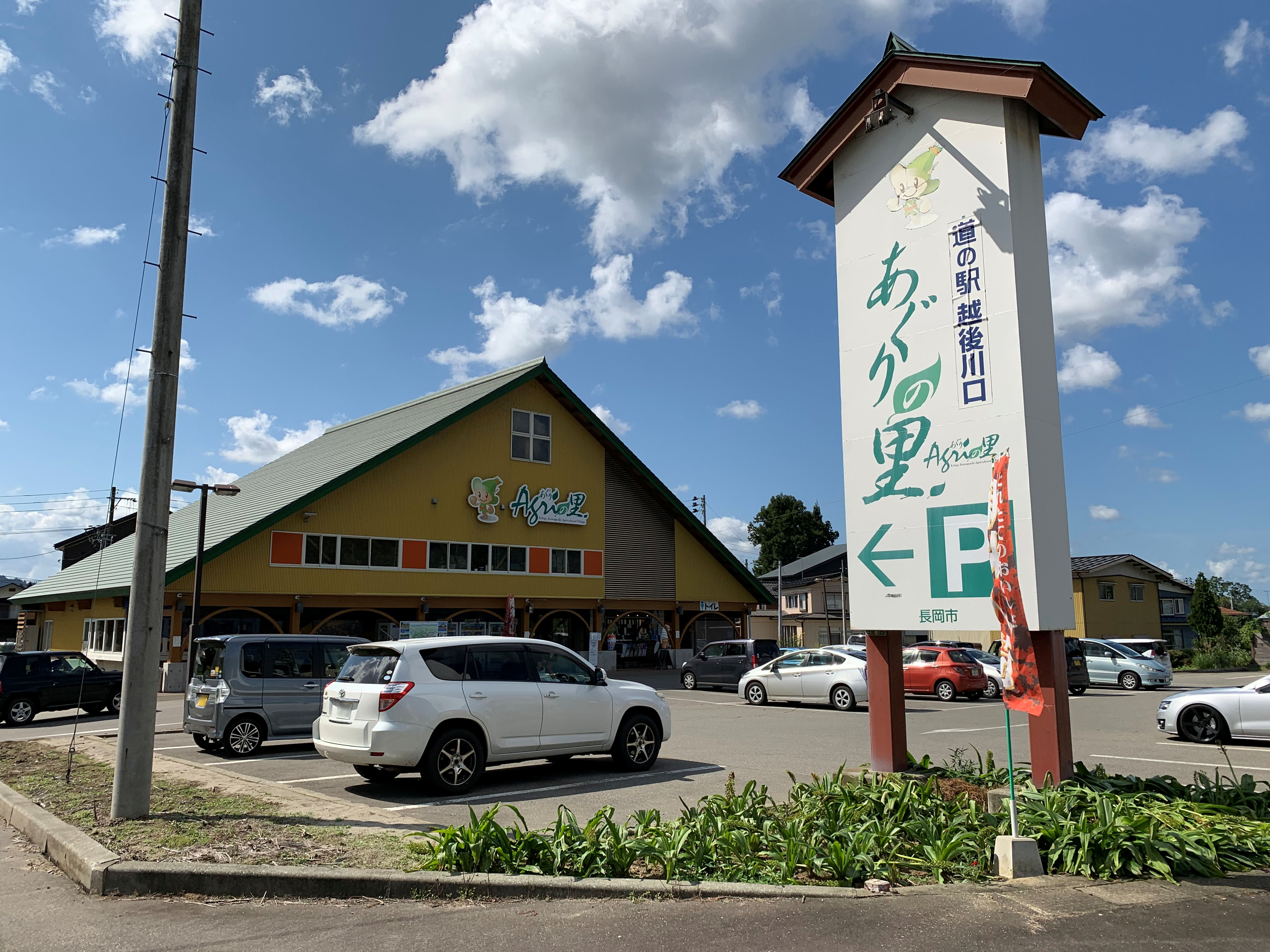 Echigo Kawaguchi, Michi no Eki (Roadside Station), Niigata, Japan. Took photo in September 2019.